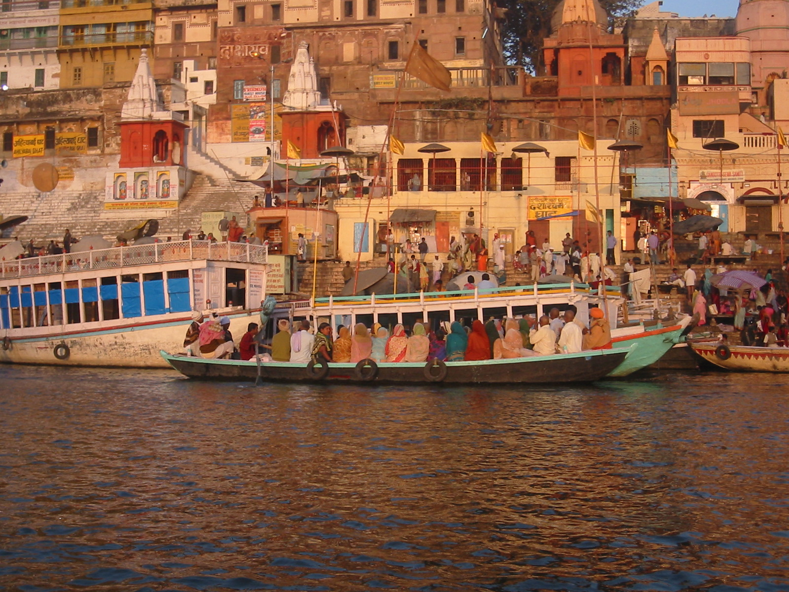 Dashashwamedha ghat on the Ganga, Varanasi.